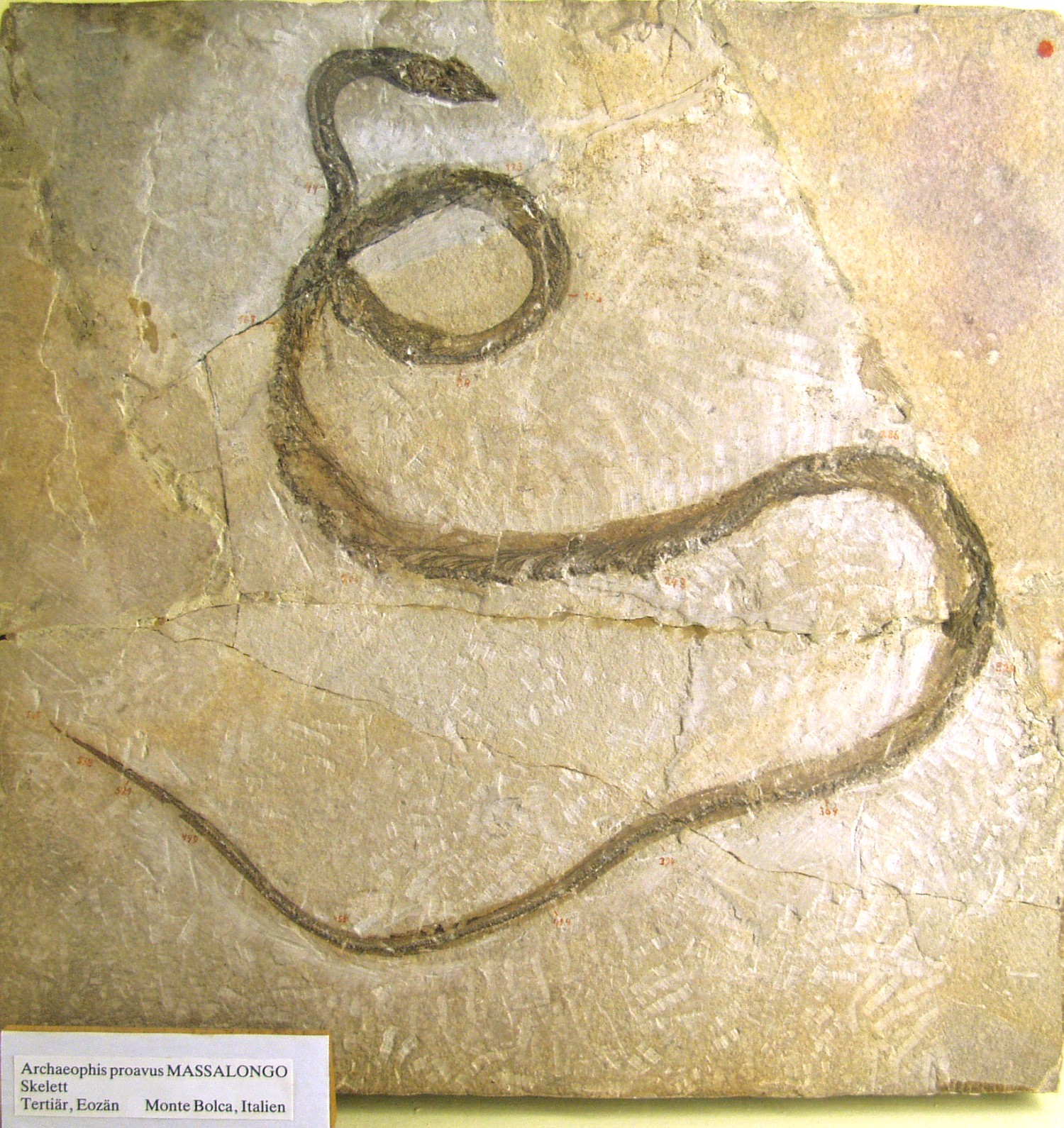 Fossil of a Archaeophis proavus Massalongo, Monte Bolca. Museum für Naturkunde (Berlin). Museum of Natural History Berlin Native nameMuseum für NaturkundeParent institutionBürger schaffen Wissen LocationBerlinCoordinates52° 31′ 48.72″ N, 13° 22′ 45.12″ E Established2 December 1889 Web page control : Q233098 VIAF: 146620974 ISNI: 0000 0001 2293 9957 LCCN: n83179862 GND: 37657-7 SUDOC: 063871335 WorldCat institution QS:P195,Q233098